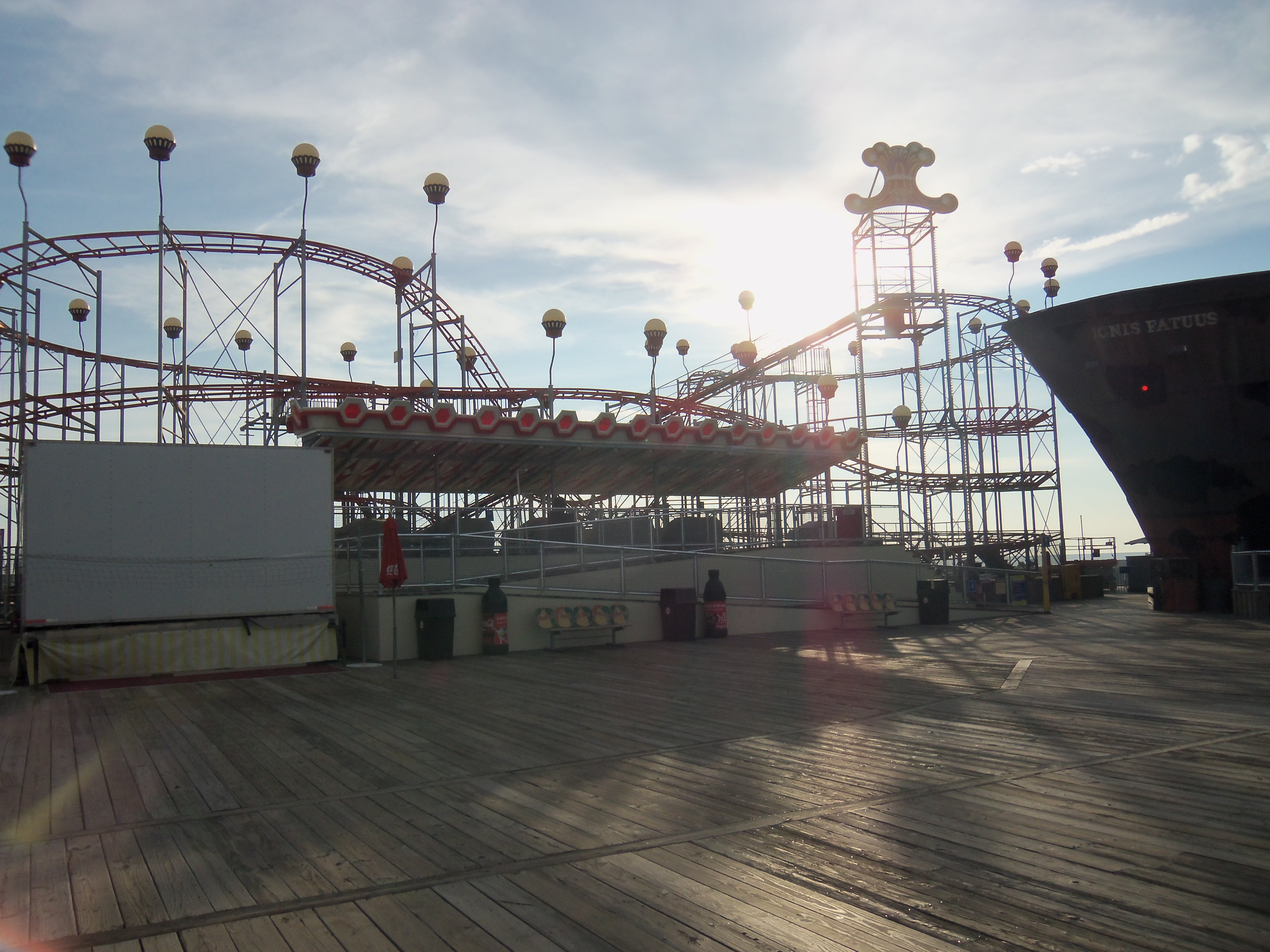 The Rollies Coaster in Wildwood NJ